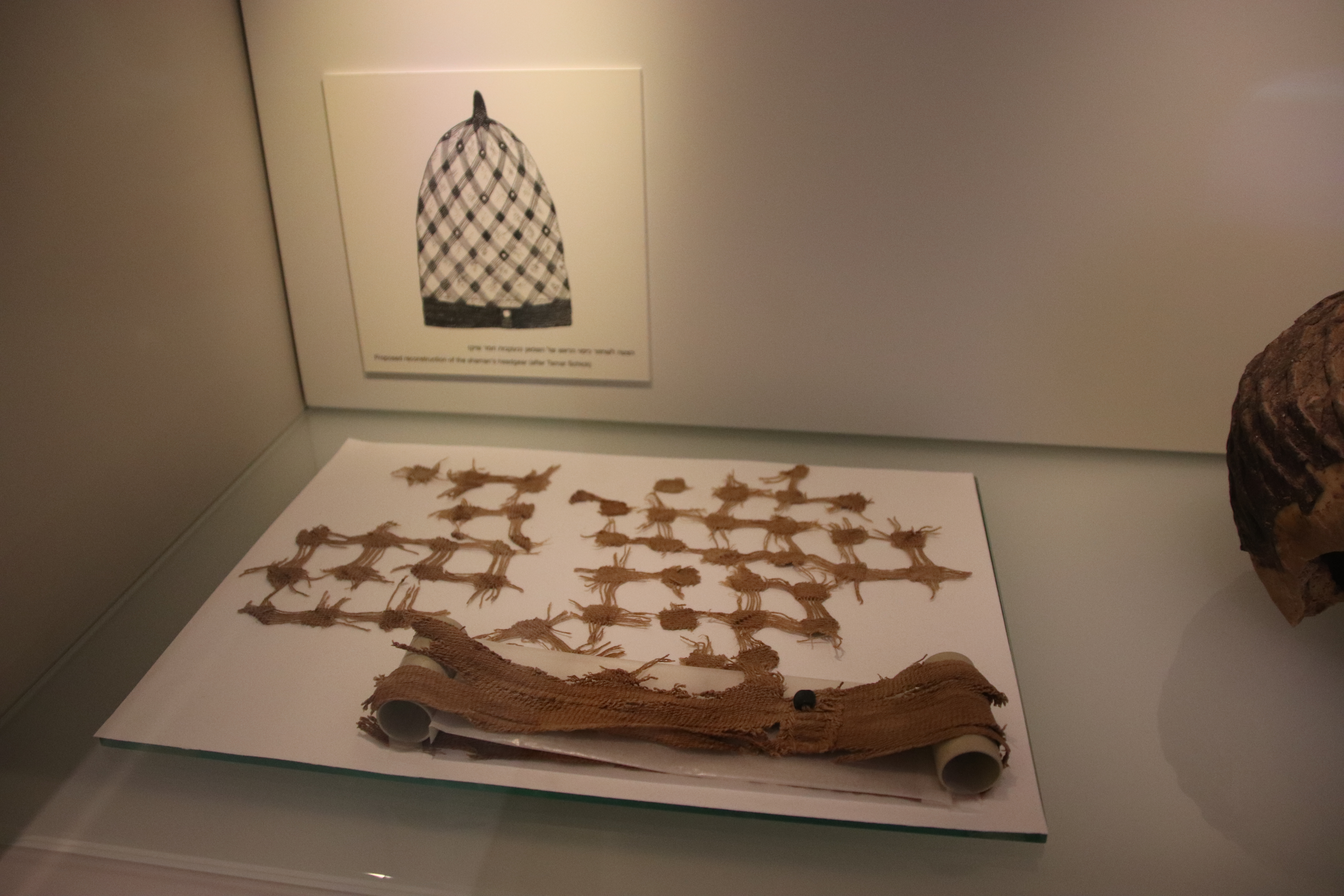 Israel Museum, Jerusalem, Israel. Complete indexed photo collection at